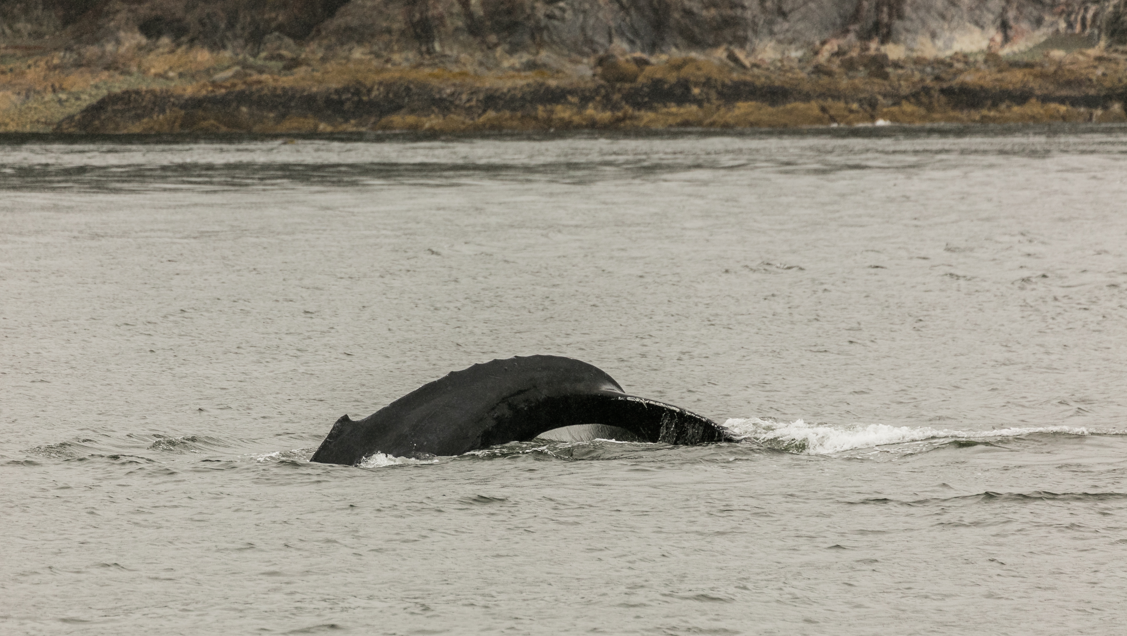 Humpback whales watching (Megaptera novaeangliae), Juneau, Alaska, United States